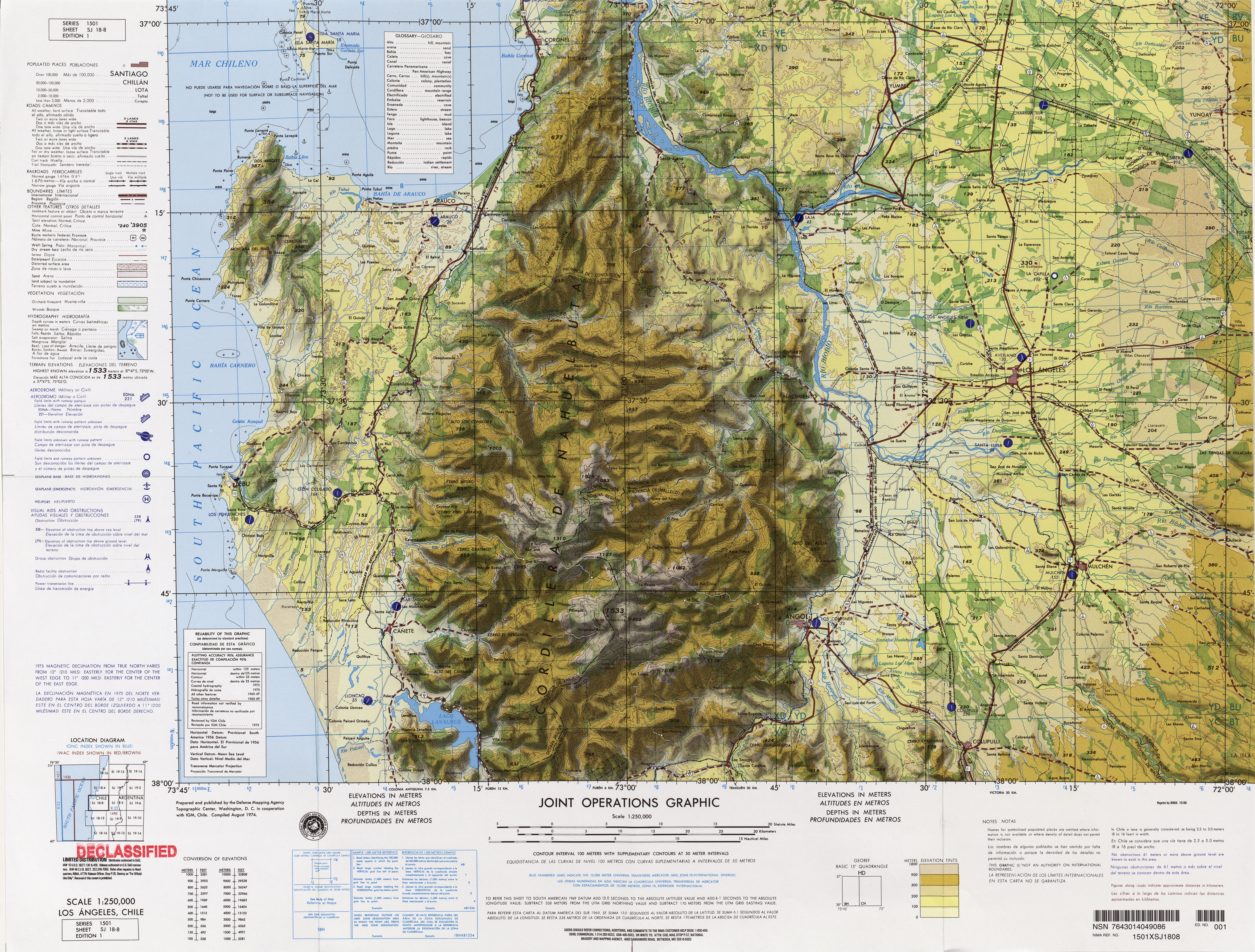 Concepcion, Lebu, Coronel, Los Angeles, Yumbel, Rio Bio Bio, Nacimiento, Cañete